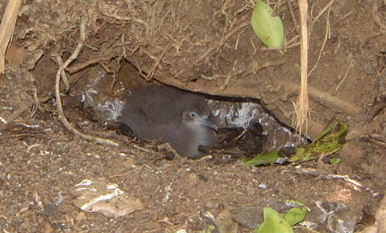 Audubon's Shearwater chick on Little Tobago island. My photo released to wikipedia